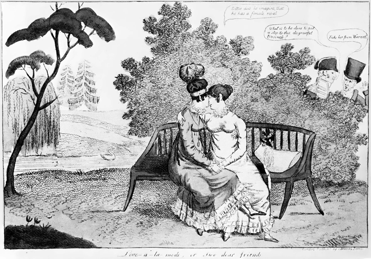 "Love-à-la-mode, or Two dear friends", an early 19th-century caricature by James Gillray, reportedly depicting a scandalous rumour told about Emma, Lady Hamilton (Nelson's mistress), and Queen Maria Carolina of Naples (presumably the woman on the left, who seems to be wearing some kind of coronet or crown beneath the feathers in her headdress). Emma has taken off her bonnet and put it on the bench. Two men spy out the situation in some distaste, from behind the bushes. Text in image: One lady to the other "Little does he imagine that he has a female rival" Gentleman in nautical uniform (Nelson?) "What is to be done to put a stop to this disgraceful Business?" Other gentleman "Take her from Warwick"(?) Note: Nelson and Emma Hamilton briefly visited Warwick in early September 1802, but Maria Carolina wasn't with them.